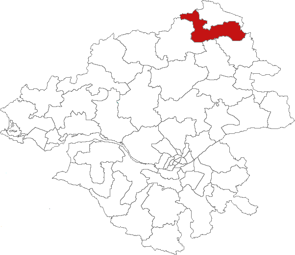 Map of canton of France : Canton de Châteaubriant, Loire-Atlantique, France